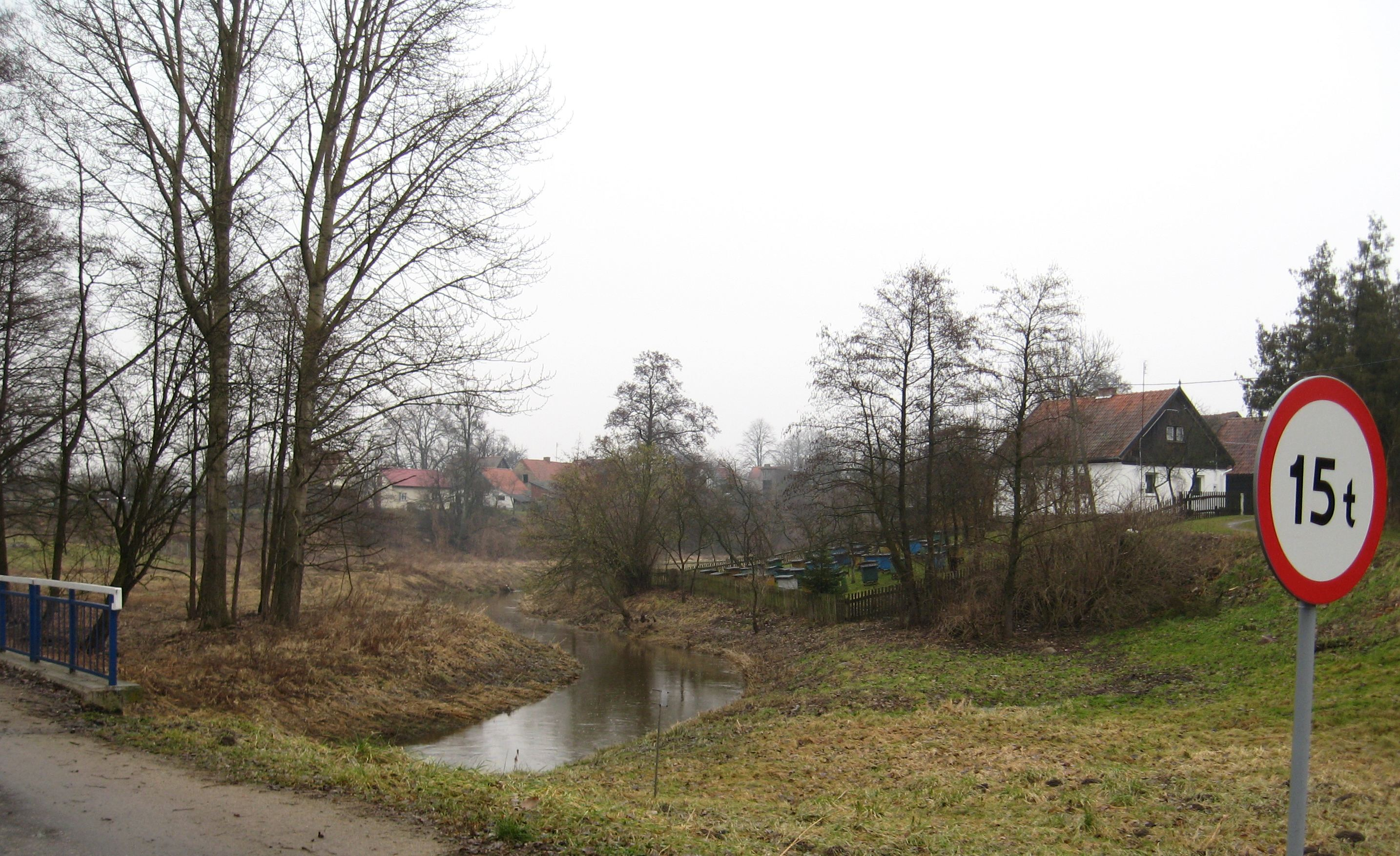 Asuny in Poland - OpenStreetMap (Info)